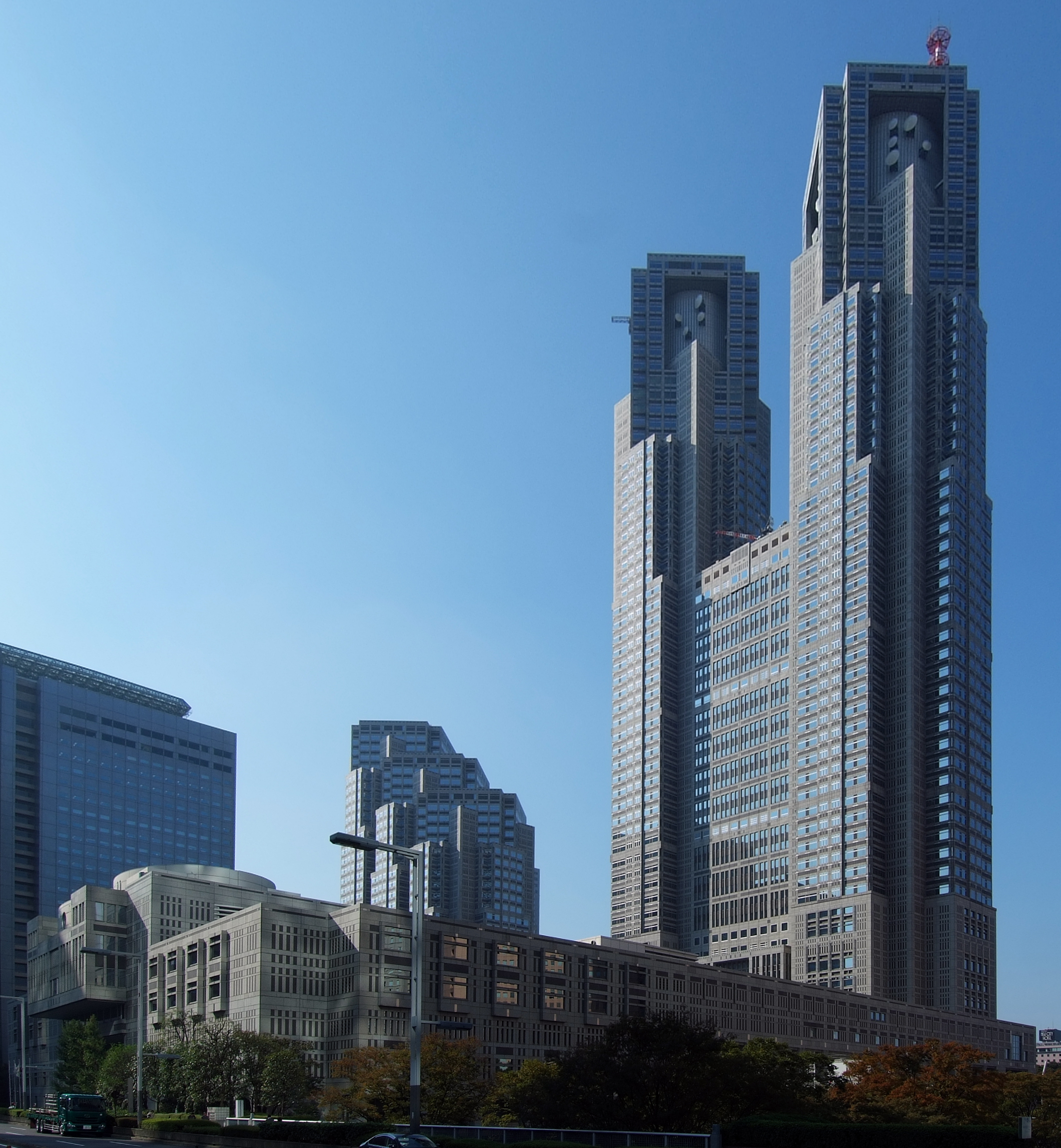 Tokyo Metropolitan Government Building No.1, at Shinjyuku Tokyo Japan, design by Kenzo Tange in 1991.